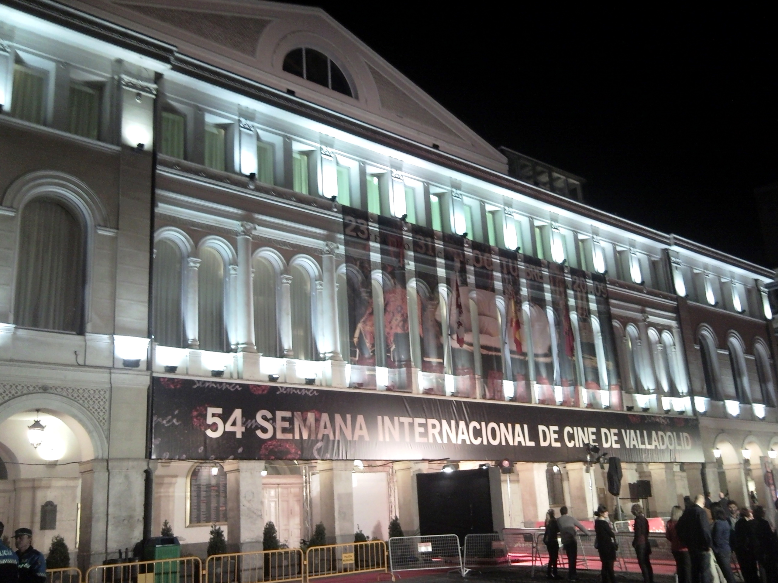 Teatro Calderón in Valladolid during the closing ceremony of Seminci 2009